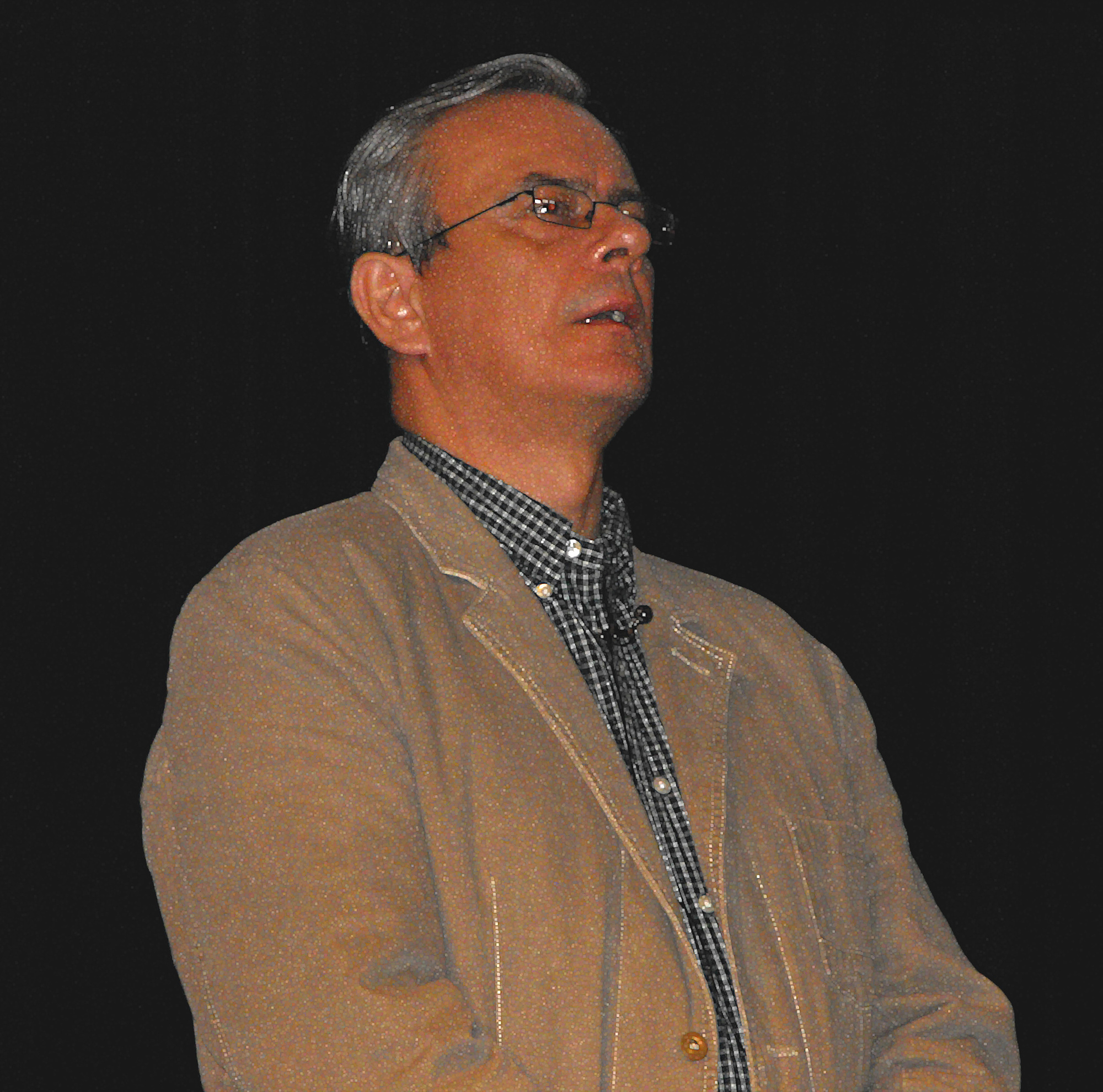 Tamás Szalma Hungarian actor in Makó, Hungary.